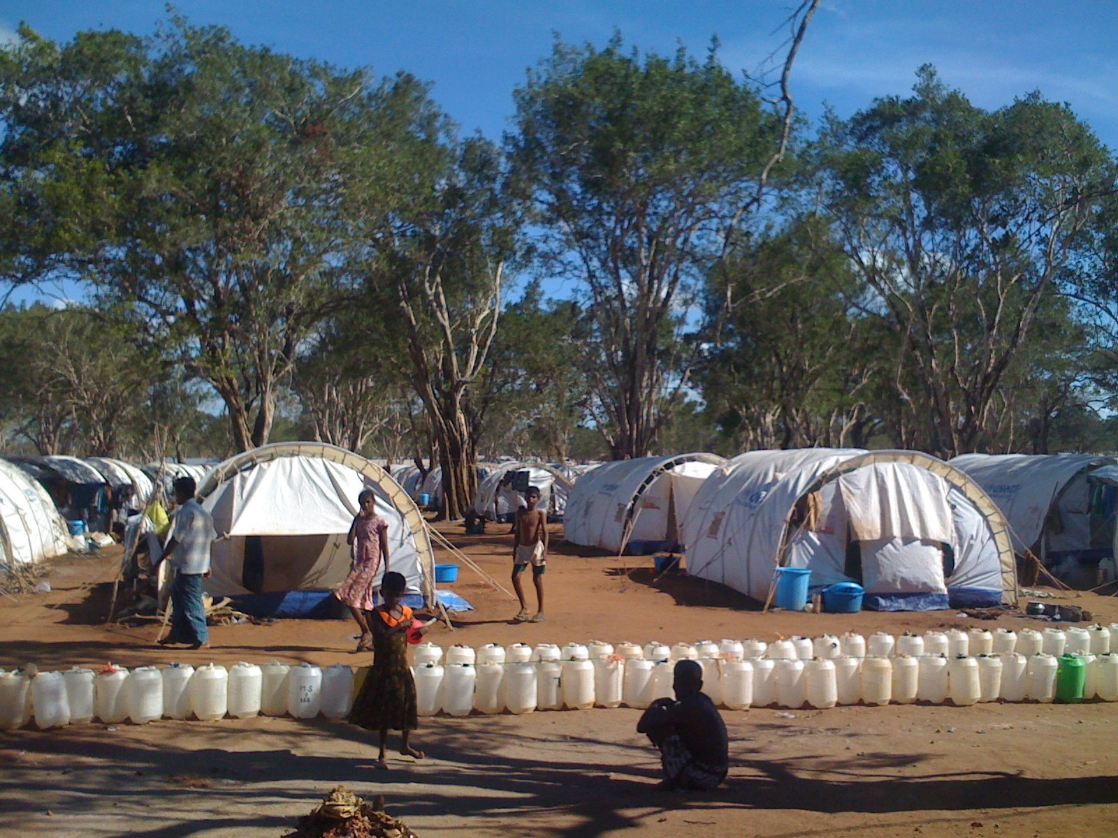 DFID-funded, UNHCR emergency shelter tents, inside the Menik Farm camp for displaced people, near Vavuniya, Sri Lanka, 16 June 2009 Picture: Department for International Development / Russell Watkins